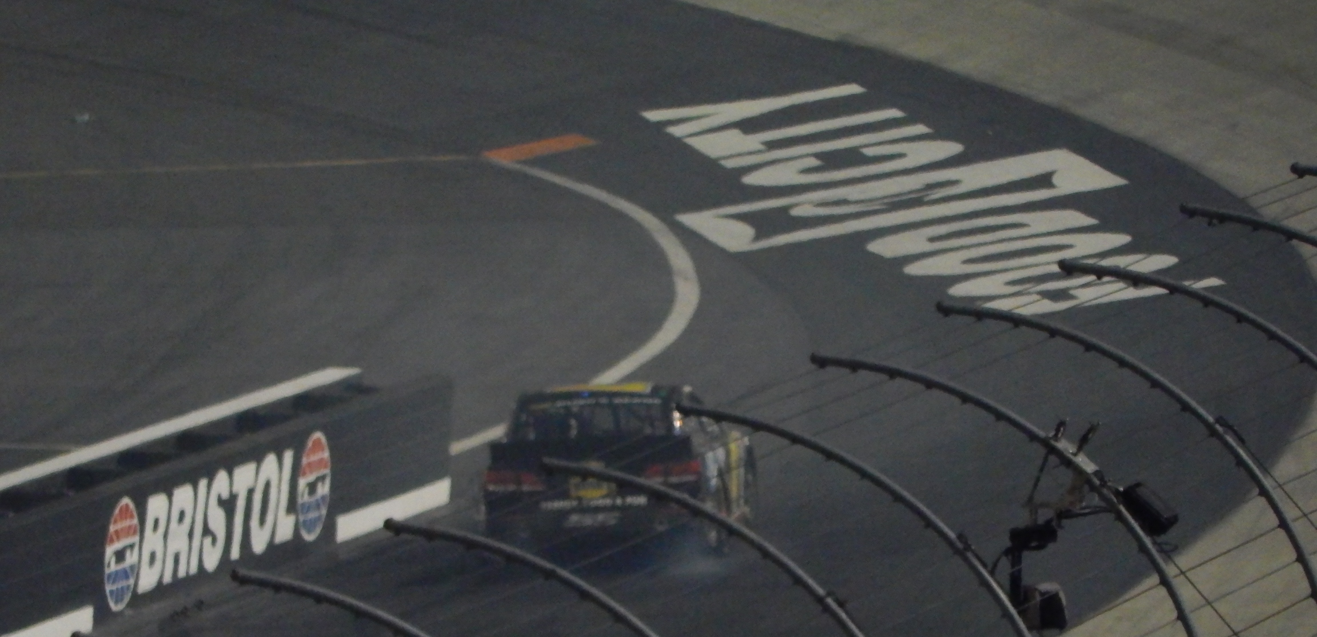 A. J. Allmendinger crashed out at Bristol Motor Speedway on lap 146.